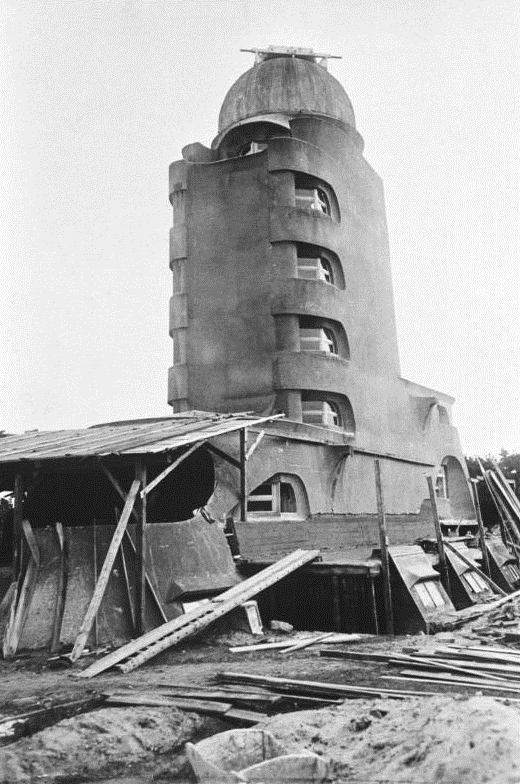 Einsteinturm (Einstein Tower) during Renovation 1927/28, Potsdam, Germany This is a retouched picture, which means that it has been digitally altered from its original version. Modifications: Removed a scratch and some spots; cropping of distracting borders and Watermark. Modifications made by Jaybear.